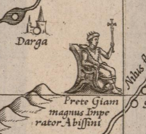 Mercator 1569 world map detail: Prester John of Africa